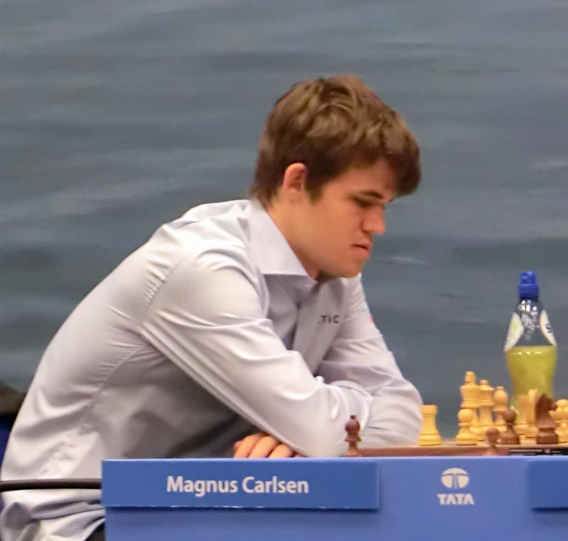 Magnus Carlsen, chess grandmaster from Norway